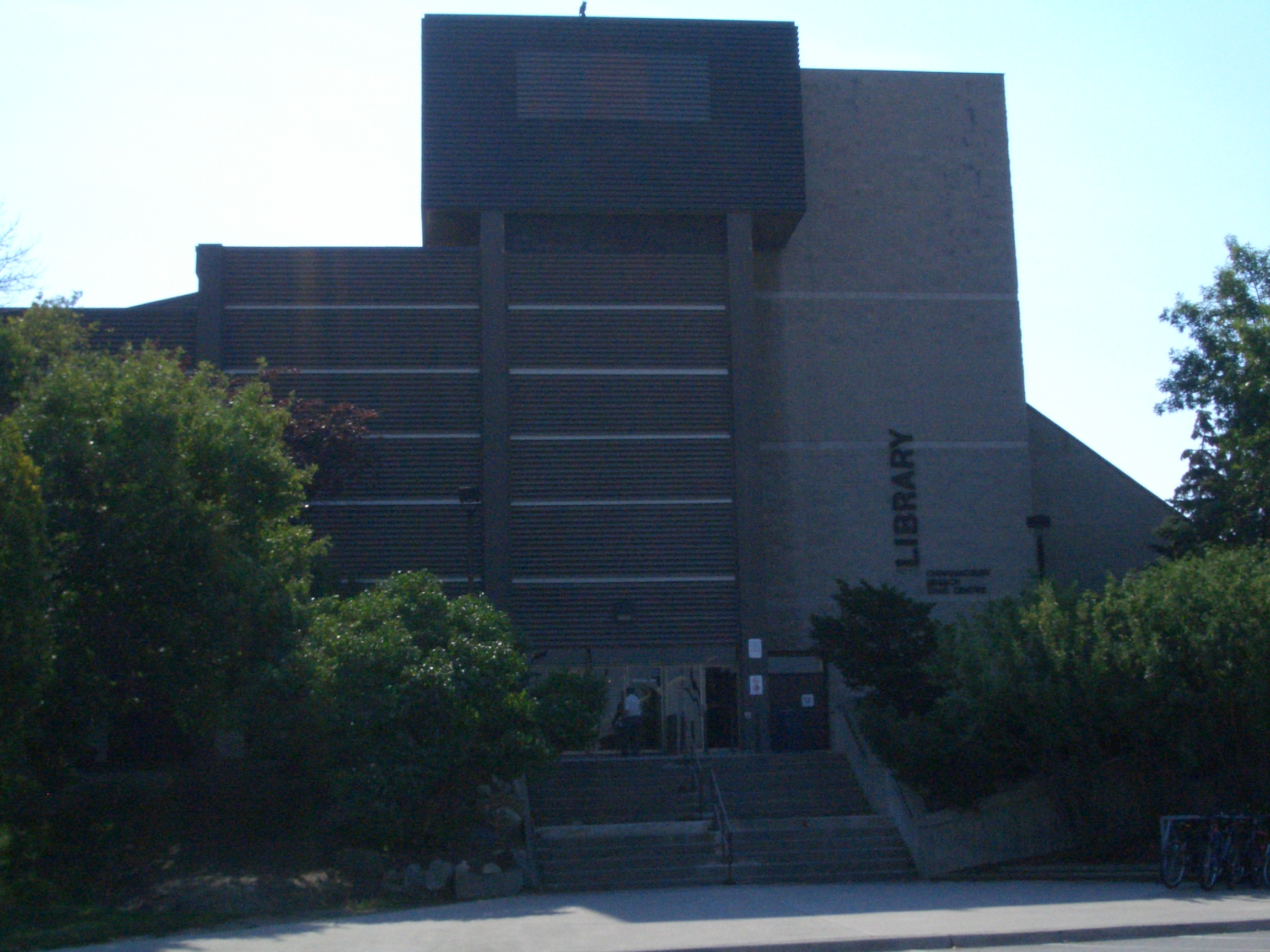 Chinguacousy Branch of the Brampton Library